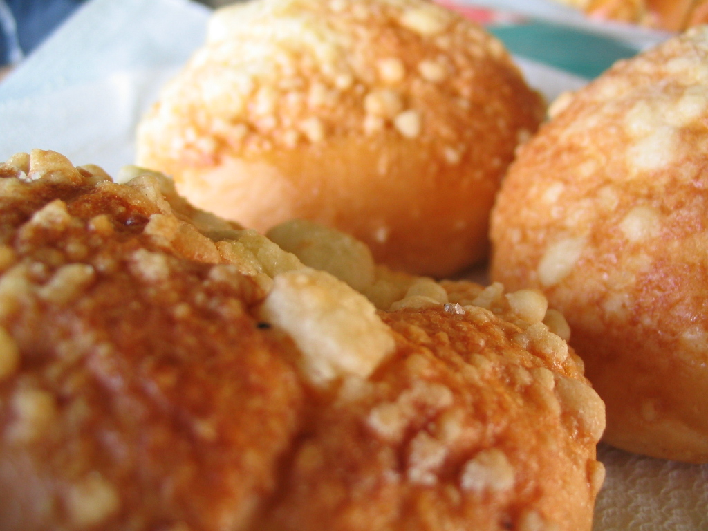 Czech sweet pastry. Česky: České sladké pečivo.